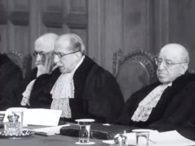 Frame extracted from newsreel on the Corfu Channel Incident. Judge José Gustavo Guerrero (El Salvador) speaks from the bench.